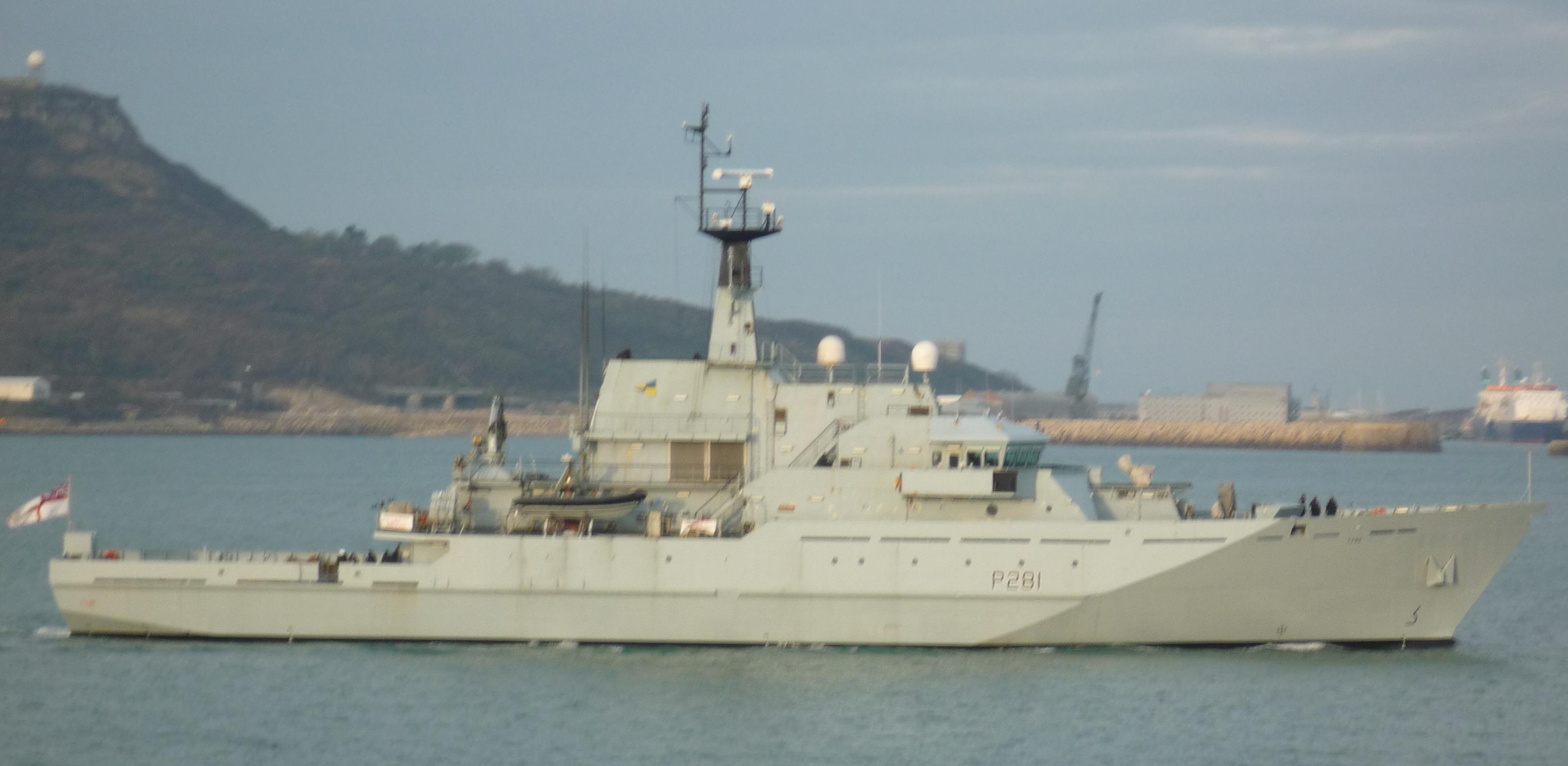 HMS Tyne off the coast of Dorset.